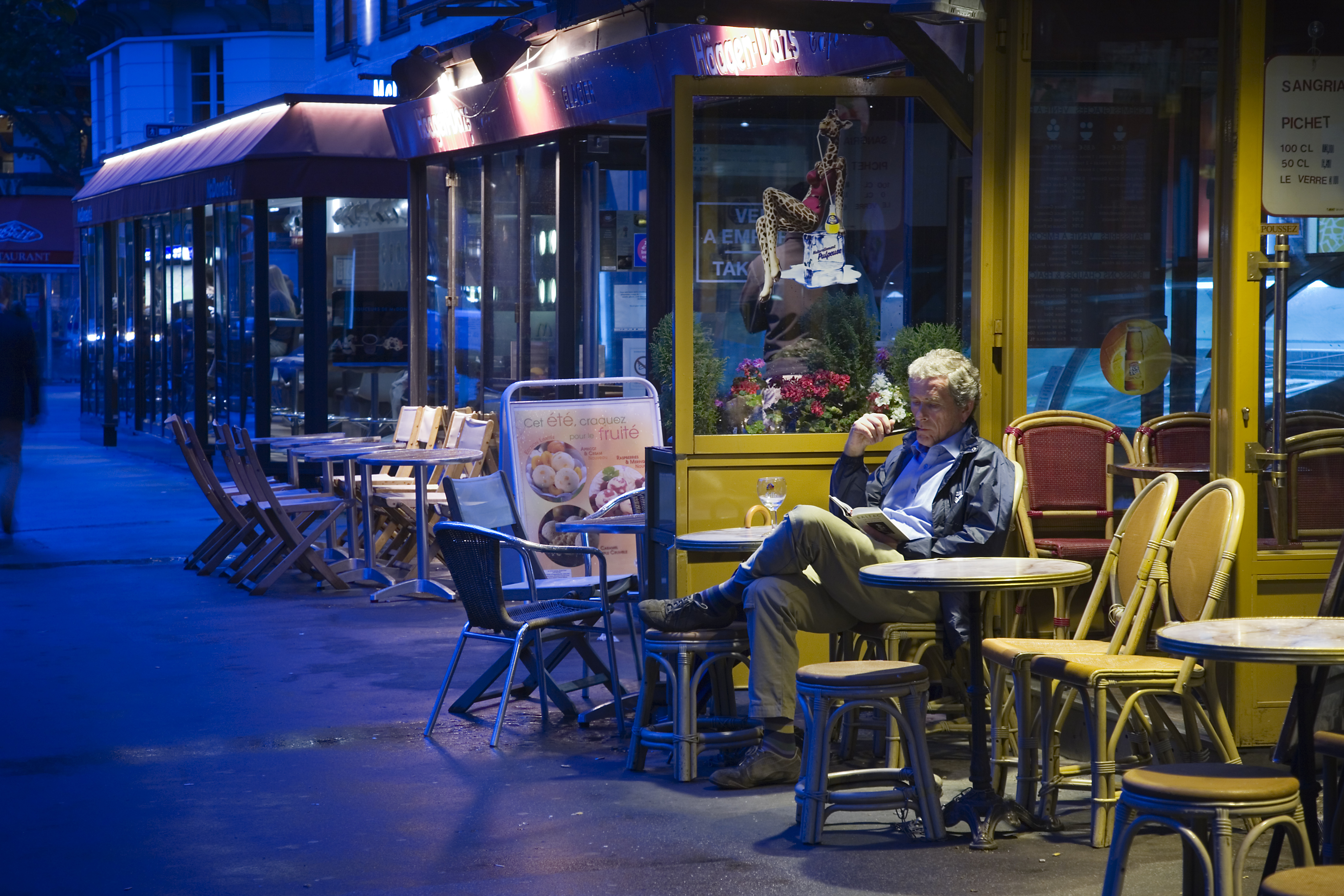 Evening scene in the Rive Gauche, Stop Cluny, 94 Boulevard Saint-Germain, 75005 Paris, France.